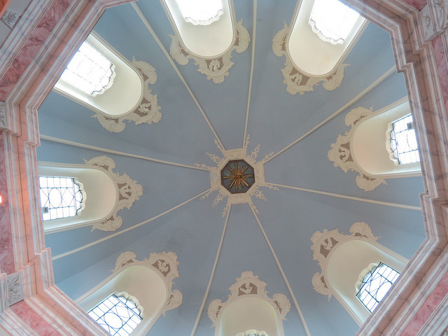 San Zeno - Gravellona Lomellina